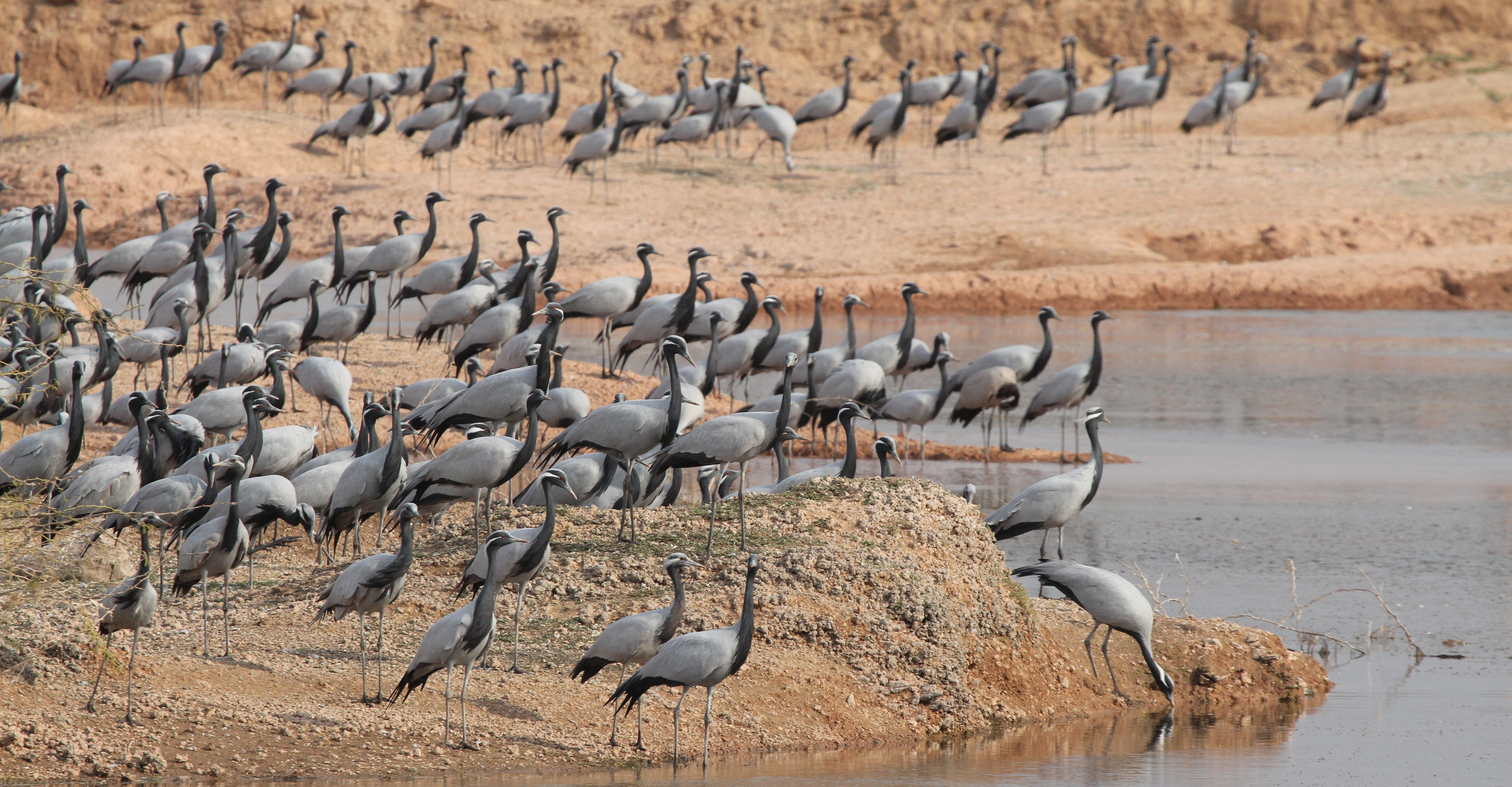 A large congregation of demoisille cranes in kichan, rajasthan.